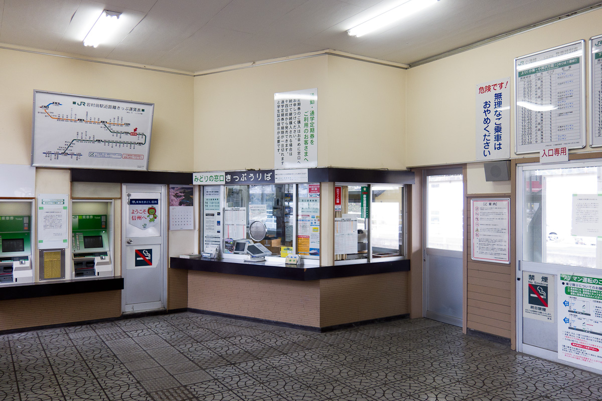 JR East Koumi-line Iwamurada station, Saku, Nagano.